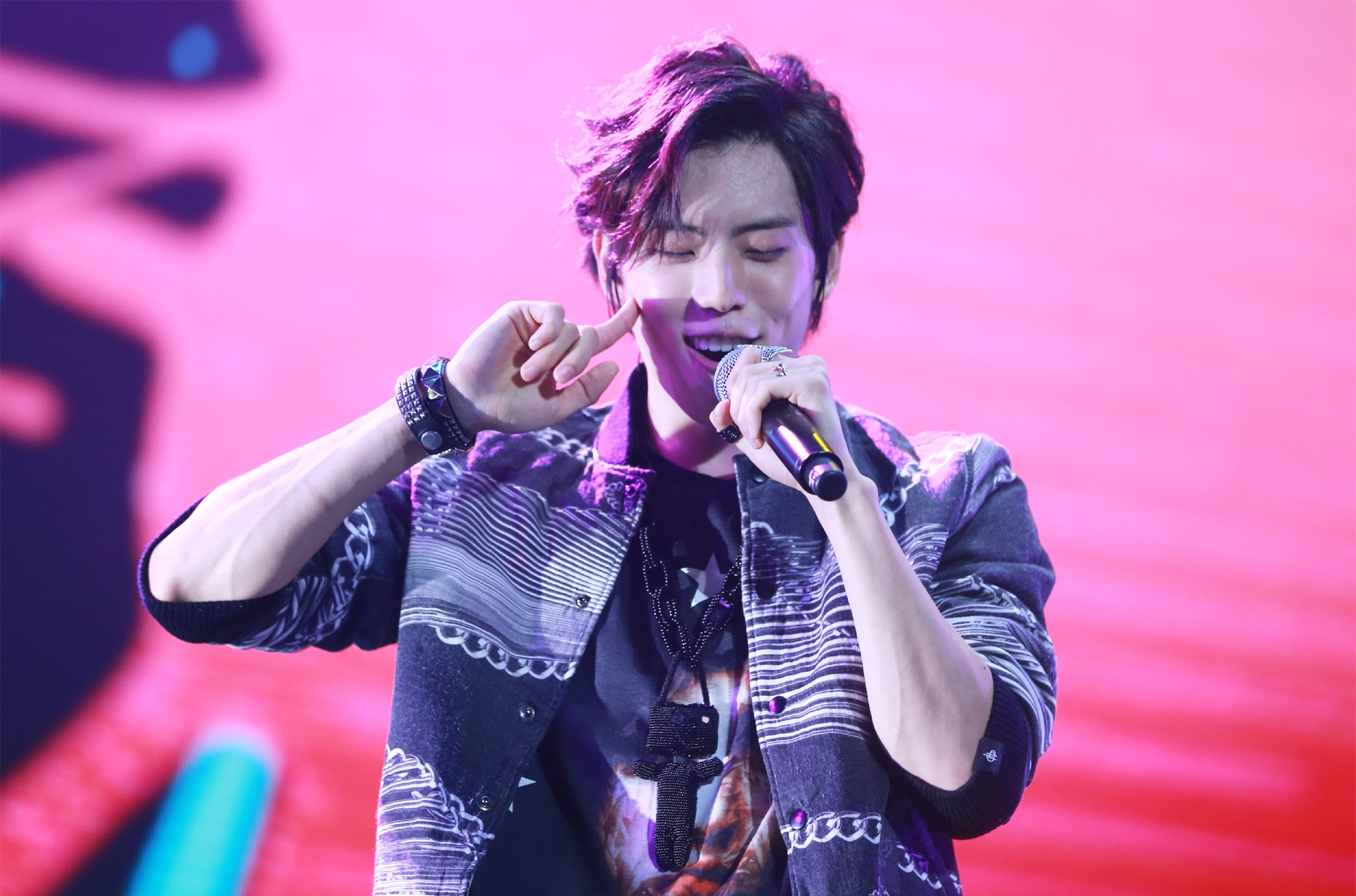 Jang Dong-woo at the One Great Step Concert in Taipei on October 12, 2013.